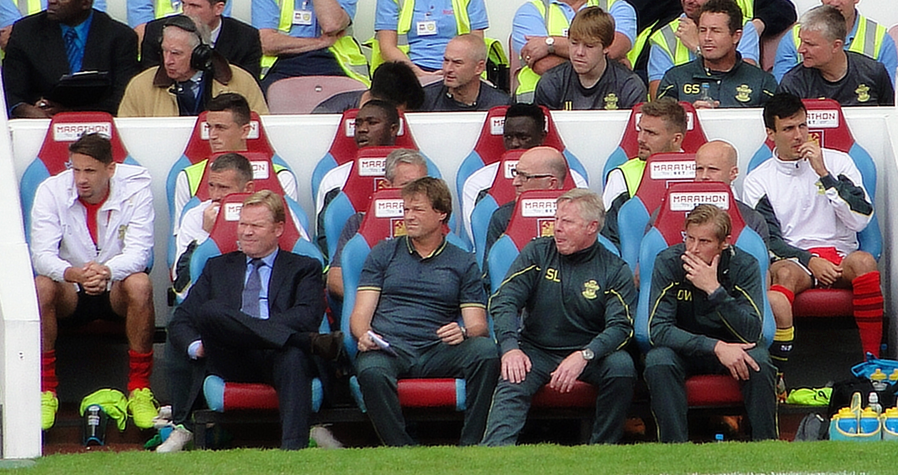 Southampton manager Ronald Koeman (front left, in suit and tie) on the bench for Southampton v West Ham at the Boleyn Ground, August 2014.